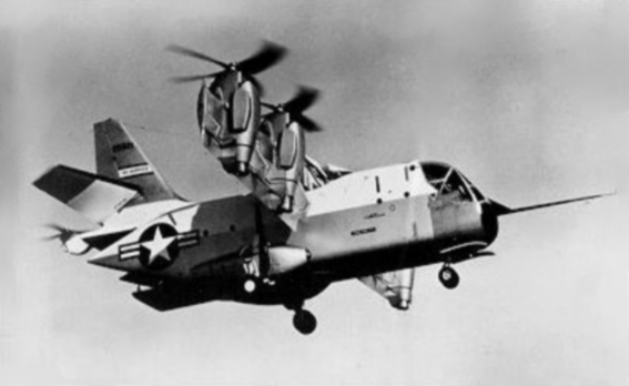 A U.S. Air Force Ling-Temco-Vought XC-142 experimental tiltwing aircraft in hovering flight.